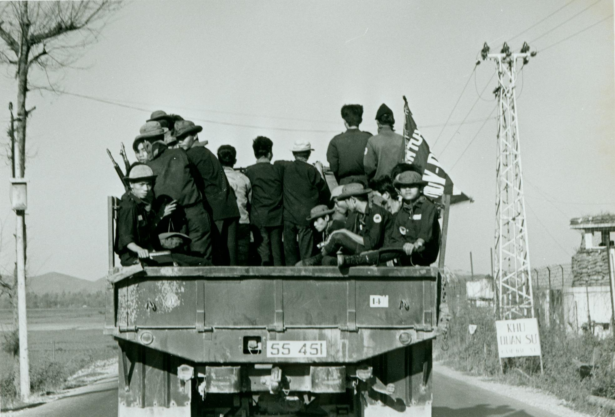 "Duty Bound: Members of the Popular Self Defense Force, all volunteers, head for strategically located road blocks and inspection points to help detect the possible infiltration of Hue by Viet cong forces (official USMC photo by Master Gunnery Sergeant C. F. X. Houts)." From the Jonathan Abel Collection (COLL/3611), Marine Corps Archives & Special Collections. OFFICIAL USMC PHOTOGRAPH